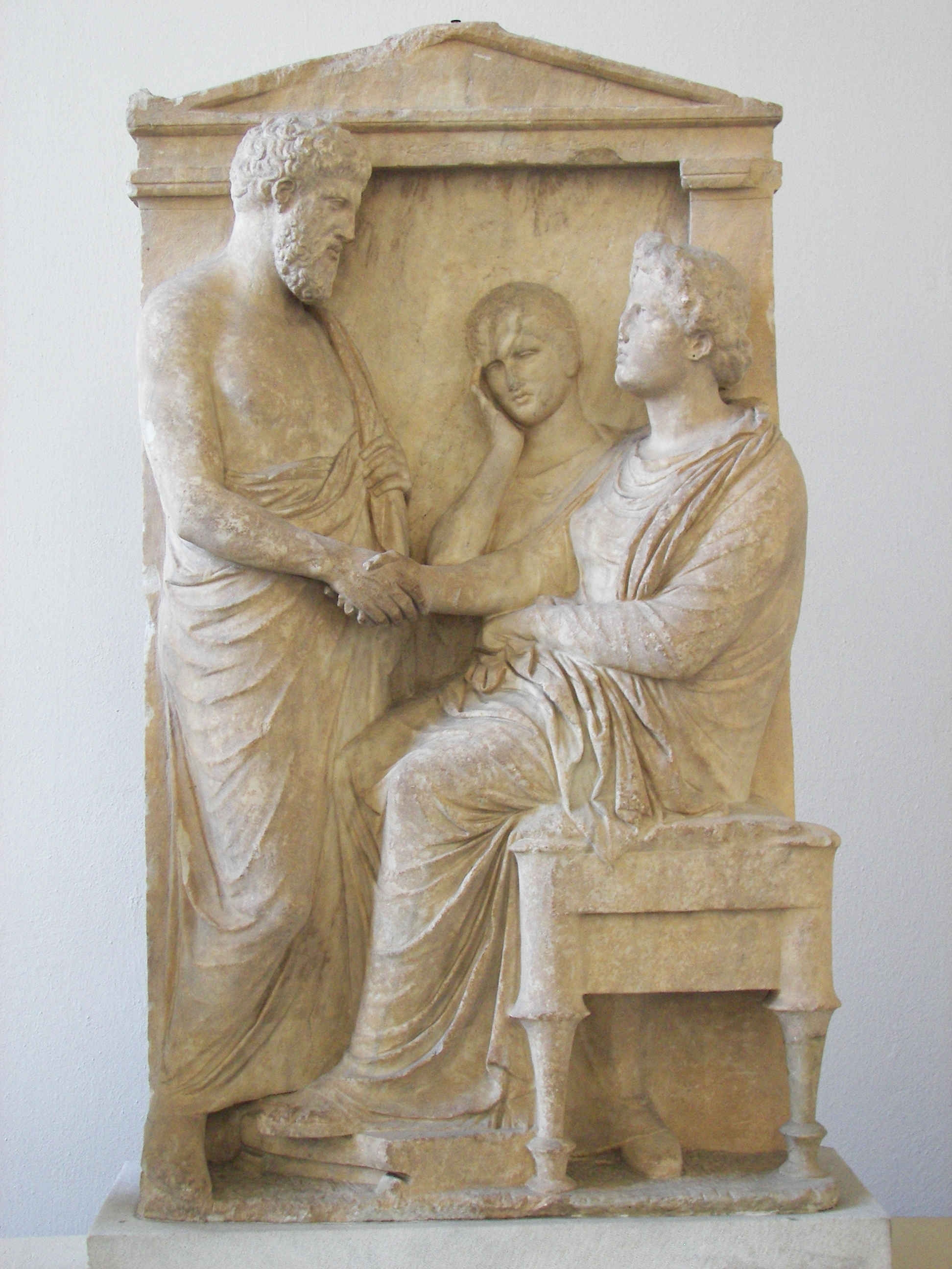 Funerary stele of Thrasea and Euandria. Marble, ca. 375-350. Antikensammlung Berlin, 738.